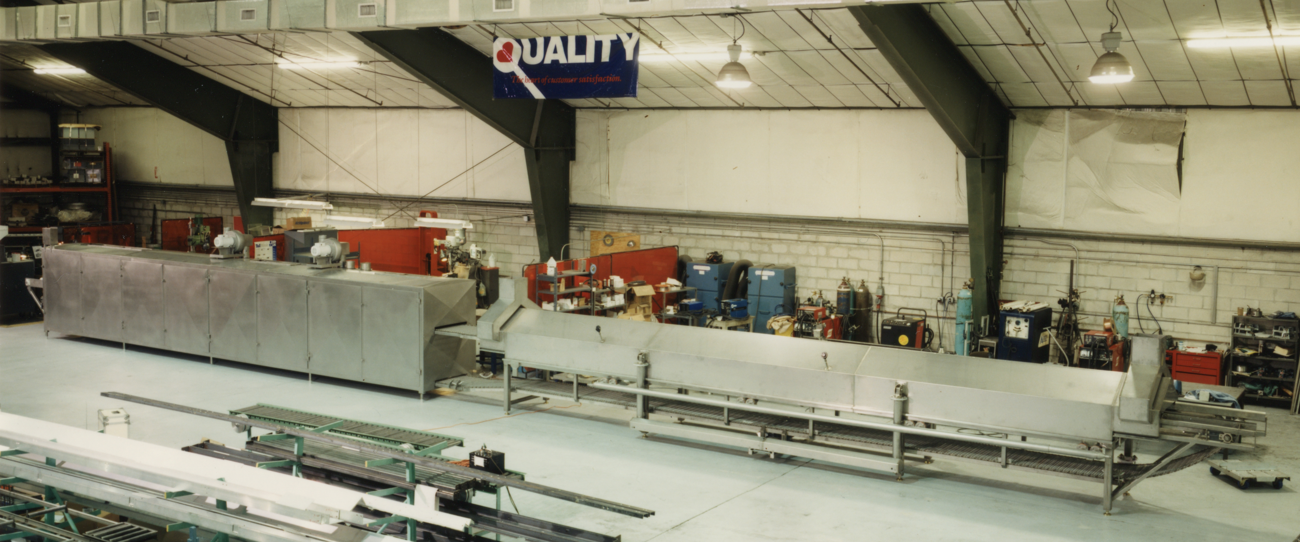 DEMACO DTC-1000 Treatment Center for fresh pasta production. DEMACO built this machine in 1995 at its dryer production facility located at 7825A Ellis Road, Melbourne, Florida. This treatment center consists of a steamer (right) and a dryer (left), and is part of a production line to produce fresh pasta. The steamer pasteurizes the pasta using steam and the dryer removes any free moisture on the product from the steaming process. After passing through the treatment center, the pasta generally goes into a modified atmosphere package. This process and packaging typically extend the shelf life of refrigerated fresh pasta to 45 days.